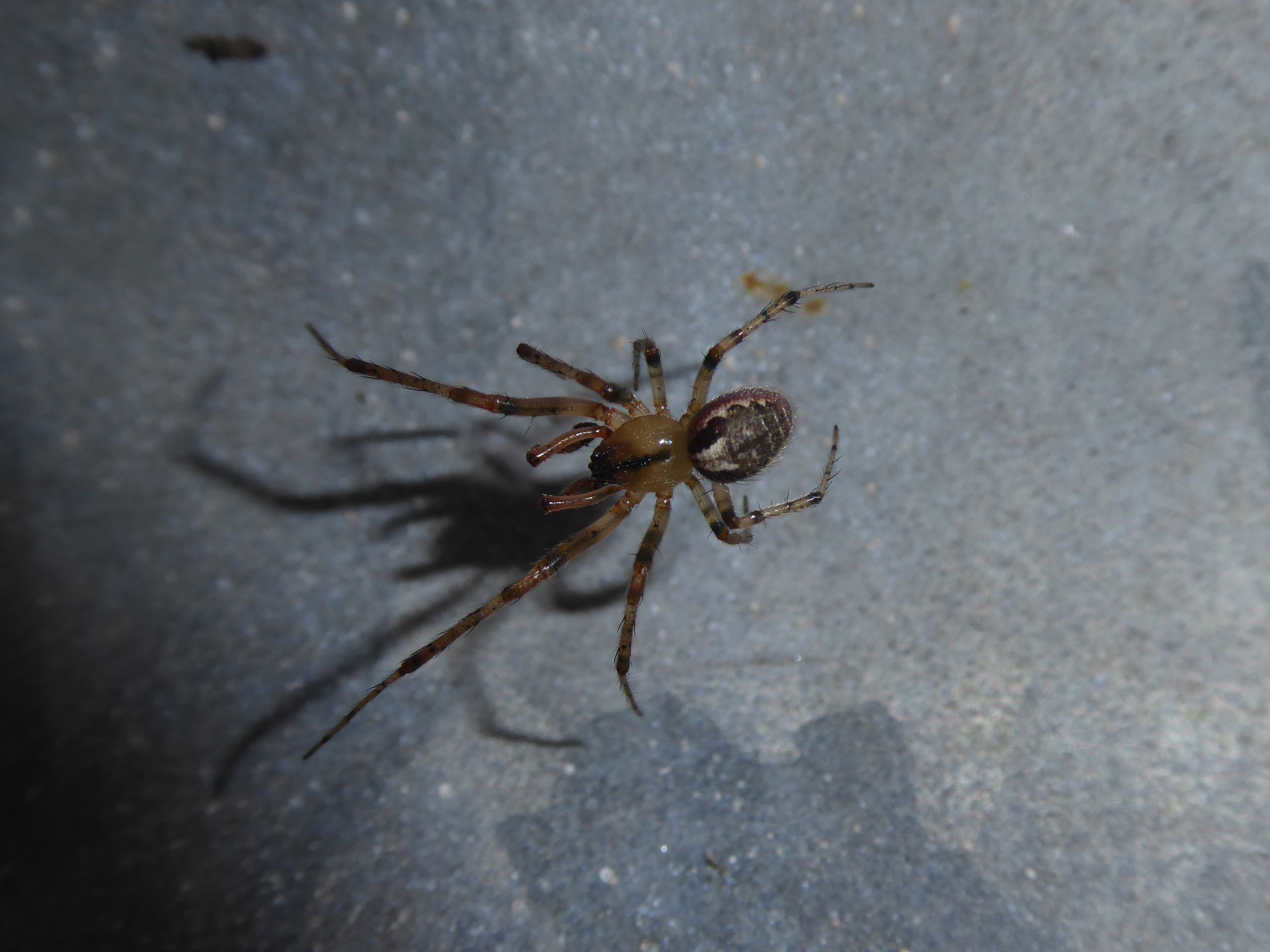 Adult male Zygiella atrica photographed somewhere along A9 road, Scotland, in the lower Cairngorms National Park